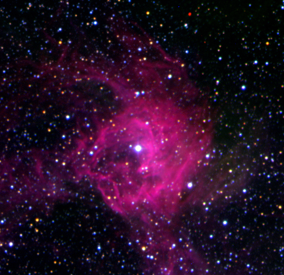 This is a bright, compact nebula that is located on the North-Western rim of the ringshaped nebula DEM L 299. It is known as SNR 0543-689 and it is the remnant of a more recent supernova explosion. The sky field measures 3.6 x 3.5 arcmin. North is up and East is left.